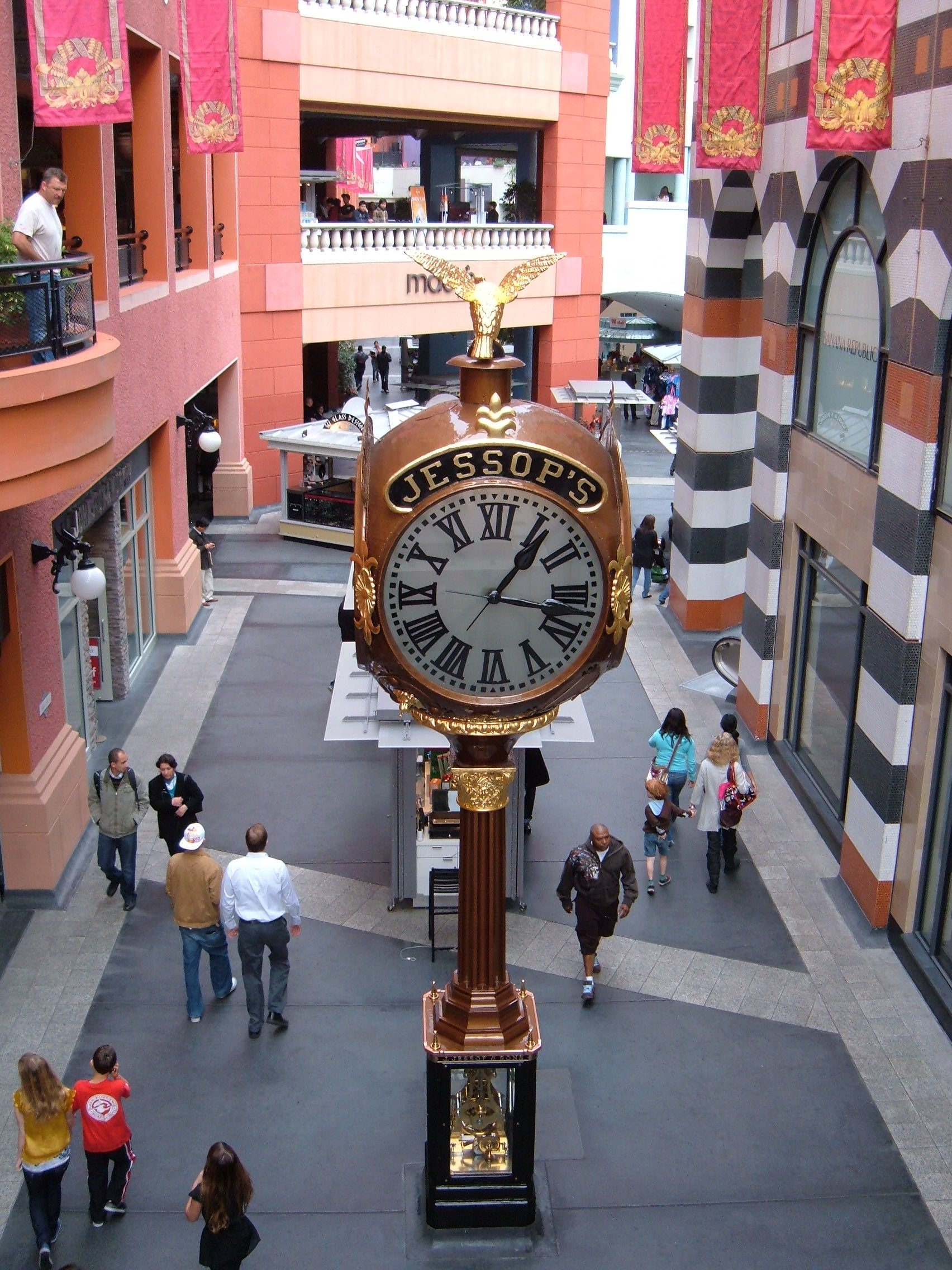 Westfield Horton Plaza in San Diego, California.